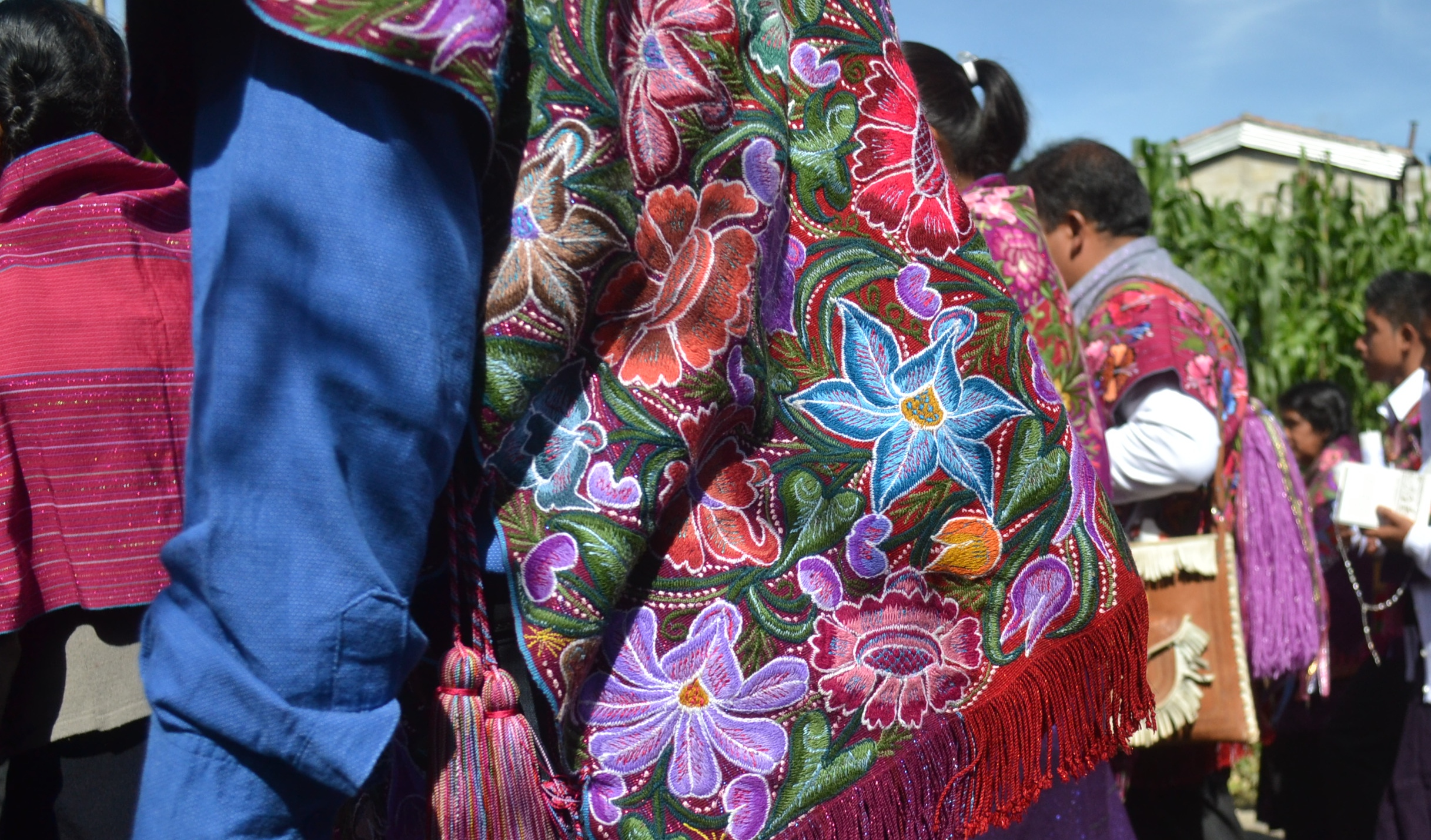 Colorful textiles with floral designs are worn on the festival of San Lorenzo.